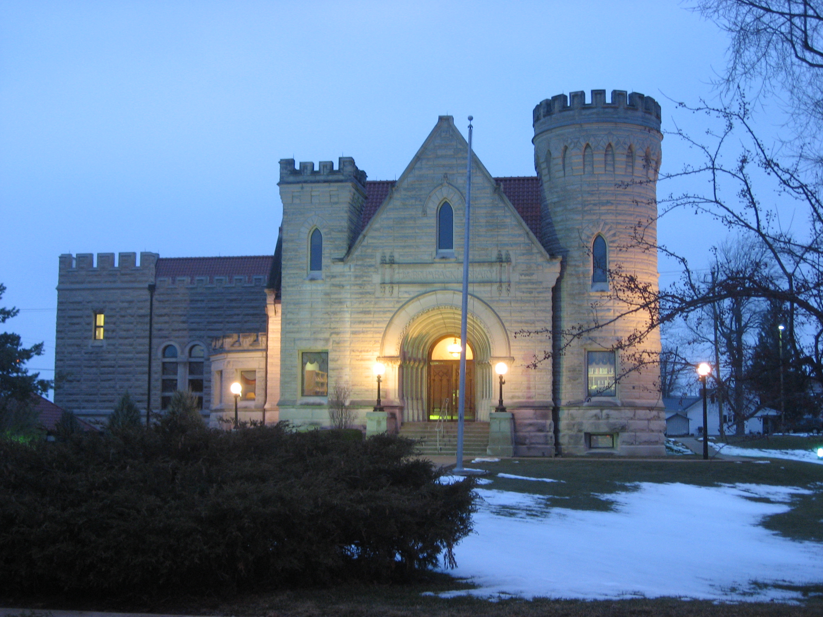 Front of the Brumback Library, located at 215 W. Main Street (State Route 118) in Van Wert, Ohio, United States. Built in 1899, the library is listed on the National Register of Historic Places.